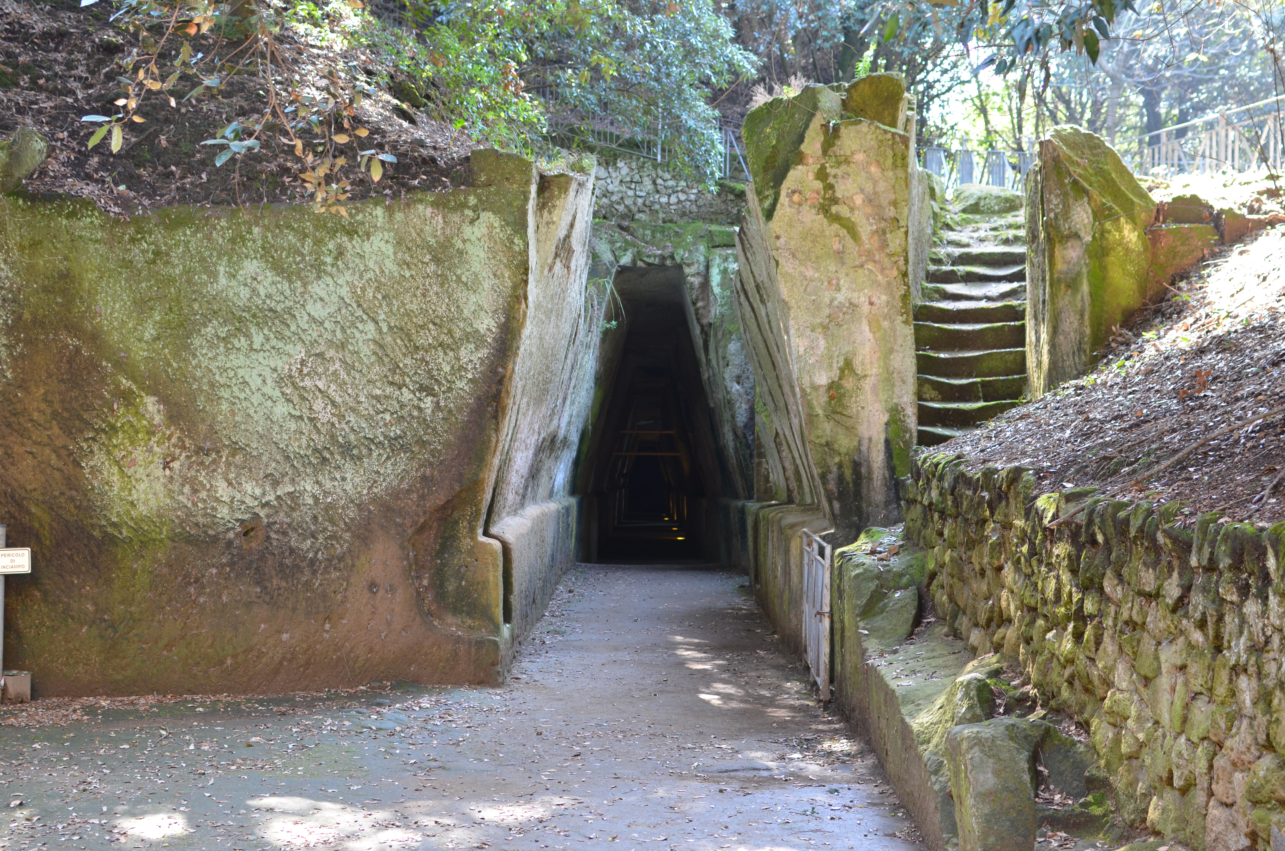 This cave in Cumae is thought to have been the seat of the Cumaean Sibyl.